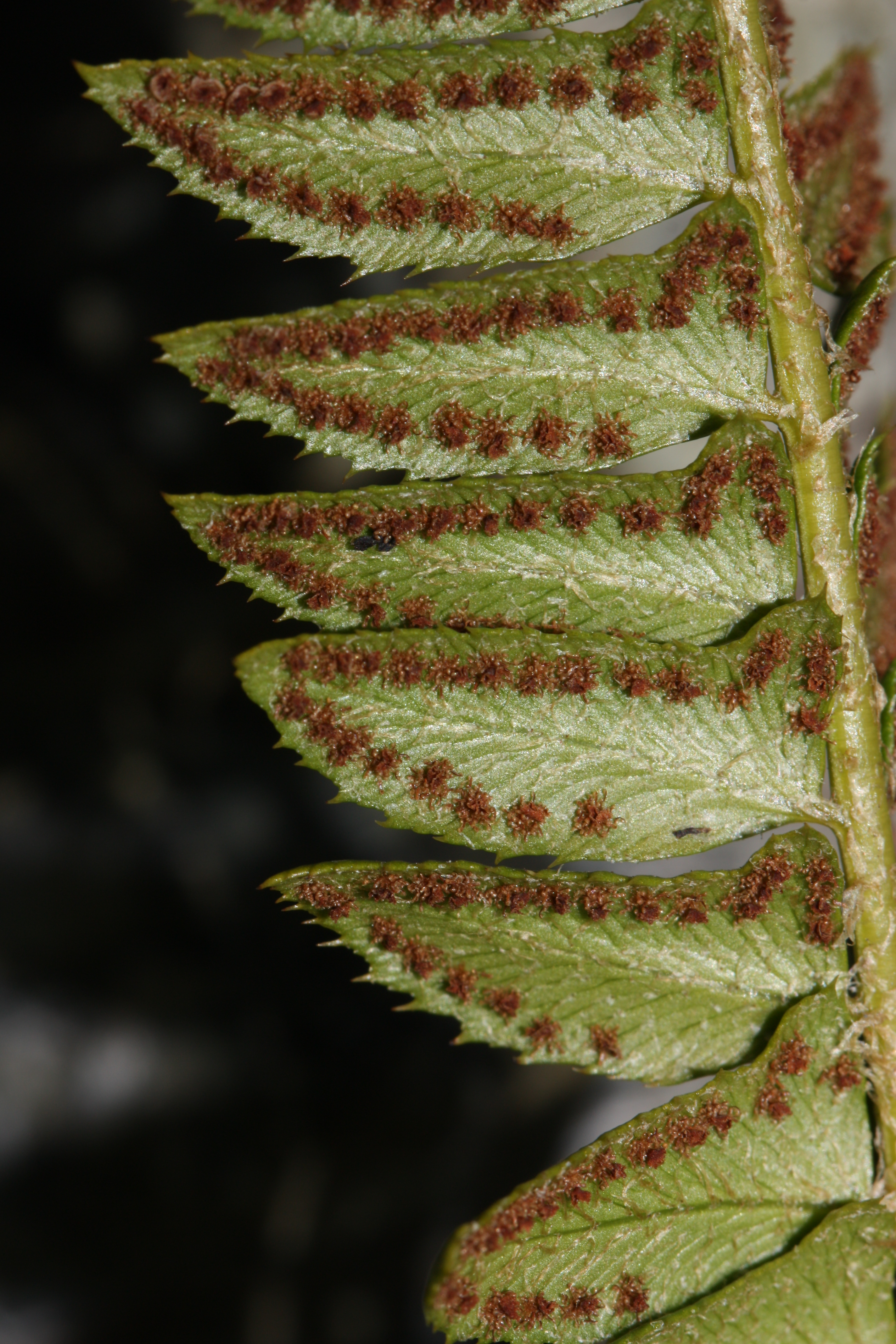 Northern Holly-fern, Mountain Holly Fern Viewpoint location: Sauk Mountain Trail #613, Mount Baker-Snoqualmie National Forest Viewpoint elevation: 1595 meter (5234 ft) Location source: Garmin GPSmap 60CSx Location Datum: WGS84